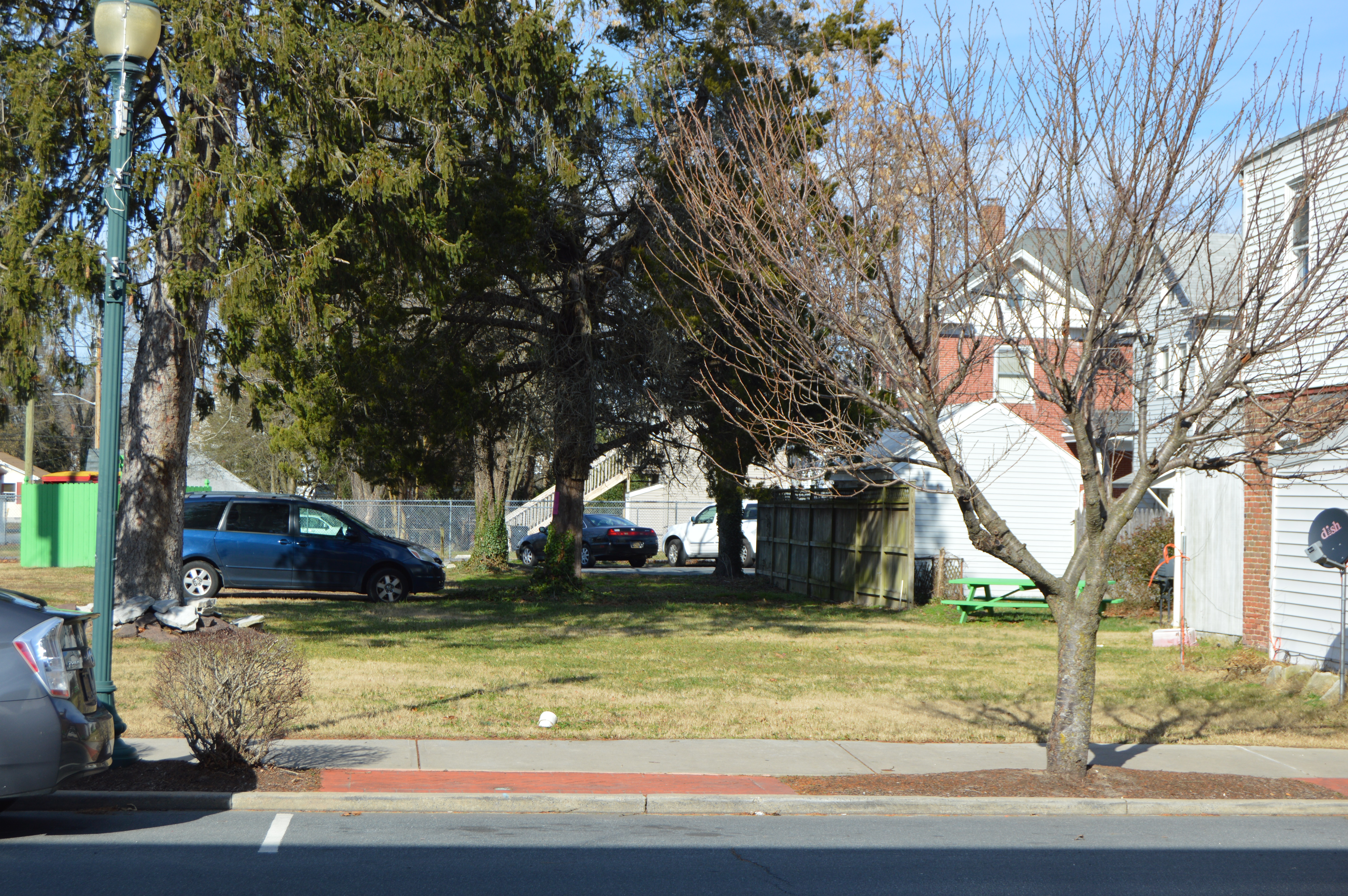 Overview of the lot just east of the northeastern corner of the intersection of High and Pearl Streets in Seaford, Delaware, United States. This was formerly the site of the Building at 218 High Street; listed on the National Register of Historic Places in 1987, it has not yet been removed despite its destruction.